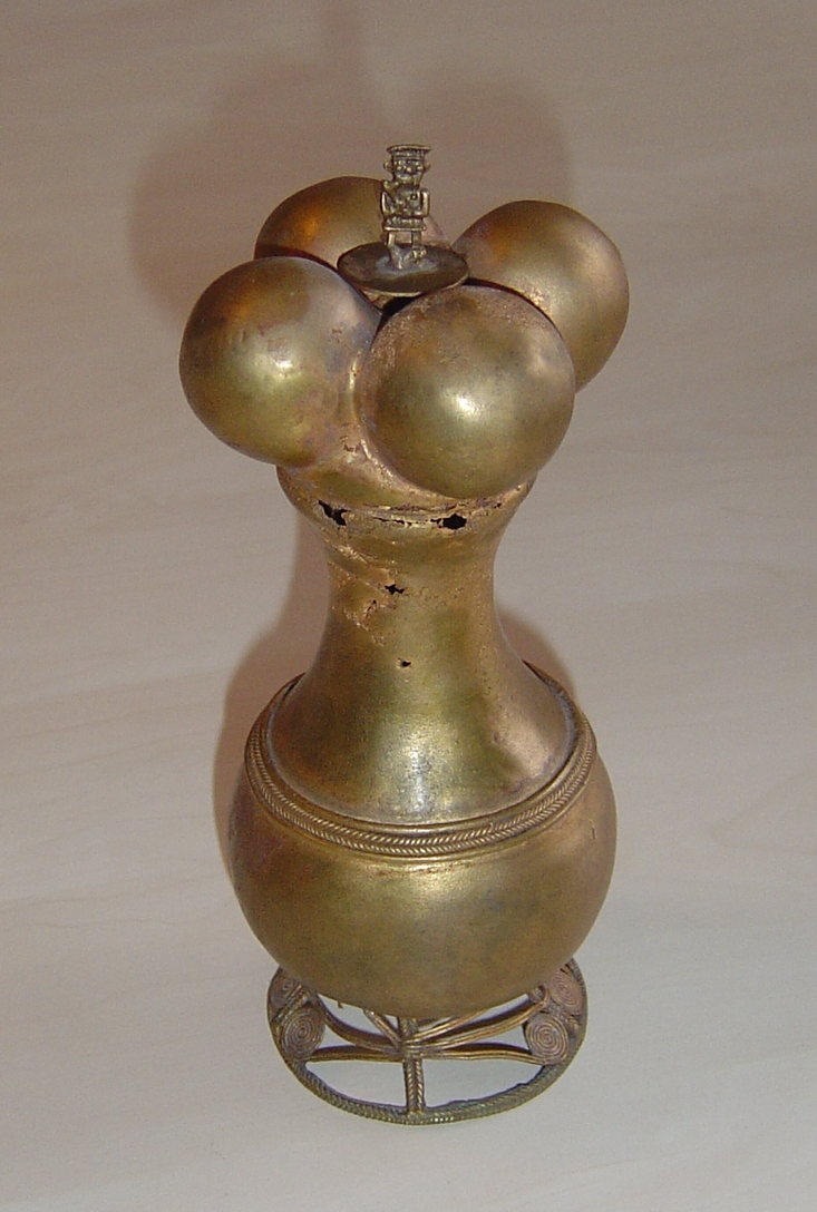 art object, probably native American, brass. Any more information, suggestion is welcome. The object is called a "poporo". This tool was used by the native population of the Cundinamarca plains and other regions of Colombia. It was mainly used to mix ingredients such as coca leaves with such minerals as lime. Some of them were made out of gold, and used for chaminc purposes as the combination of those elements resulted in hallucinogenic substances.